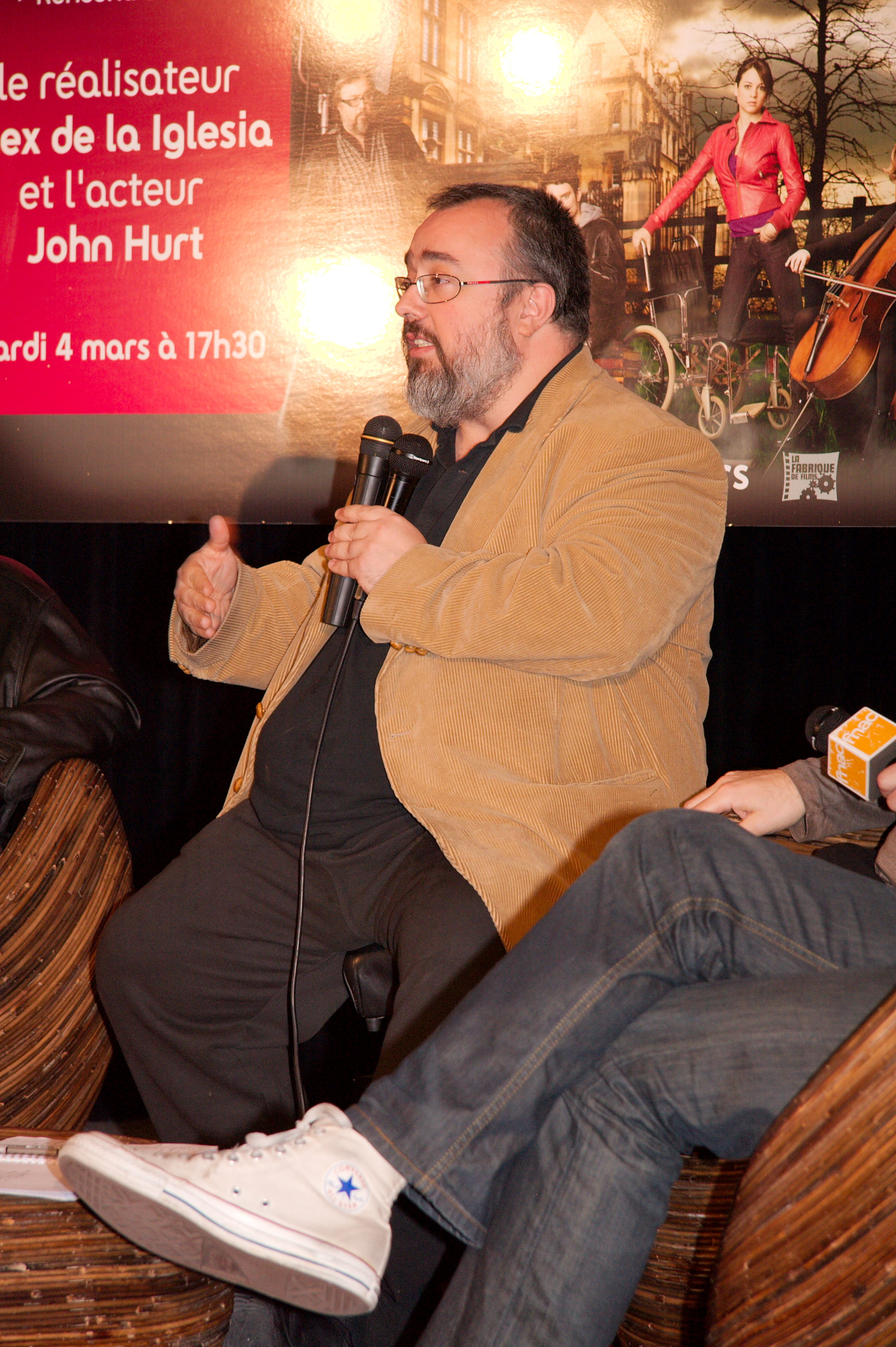 Rendezvous with Álex de la Iglesia at Fnac des Ternes (Paris, France).